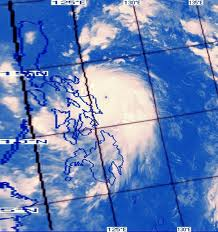 Typhoon Betty near landfall in the Philippines.